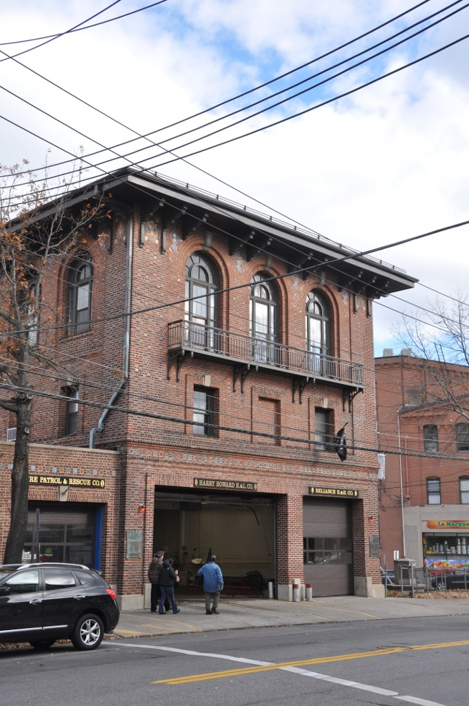 The central fire station on Westchester Ave. in Port Chester, New York.